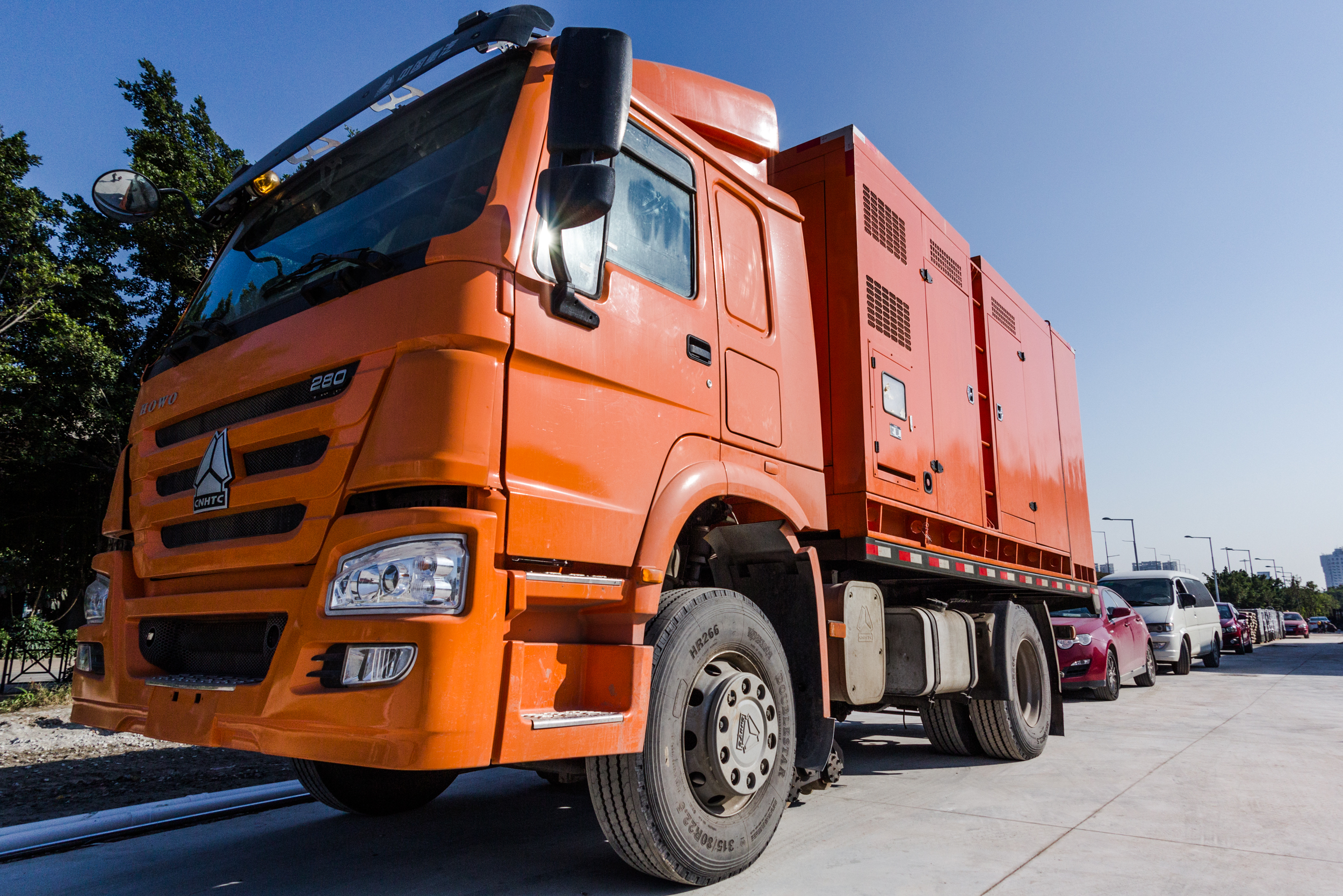 The engineering vehicle of Guangzhou Tram